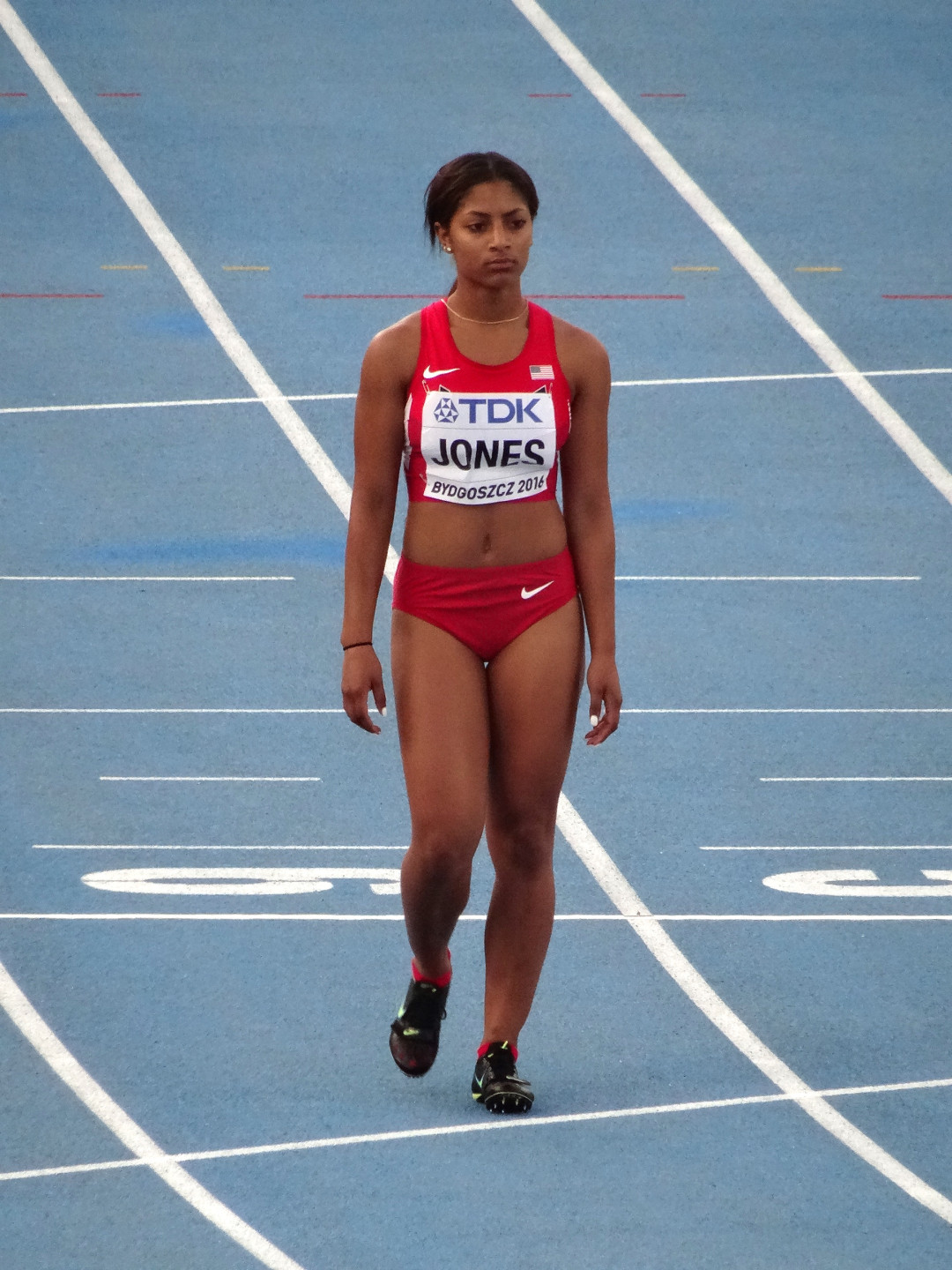 2016 IAAF World U20 Championships in Bydgoszcz, 4x100m relay women final